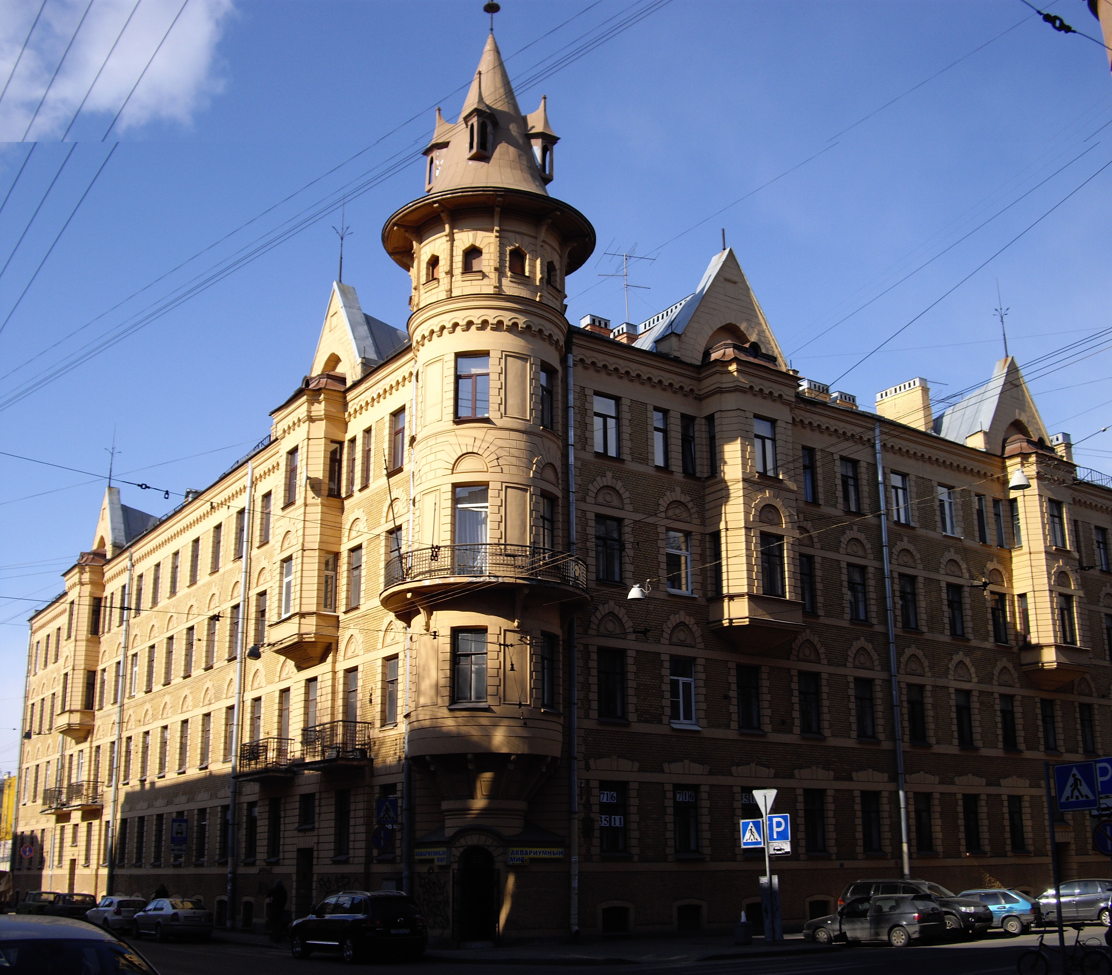 Keibel's rent house in Saint Petersburg (33, Bol'shaya Zelenina street and 2, Barochnaya street)